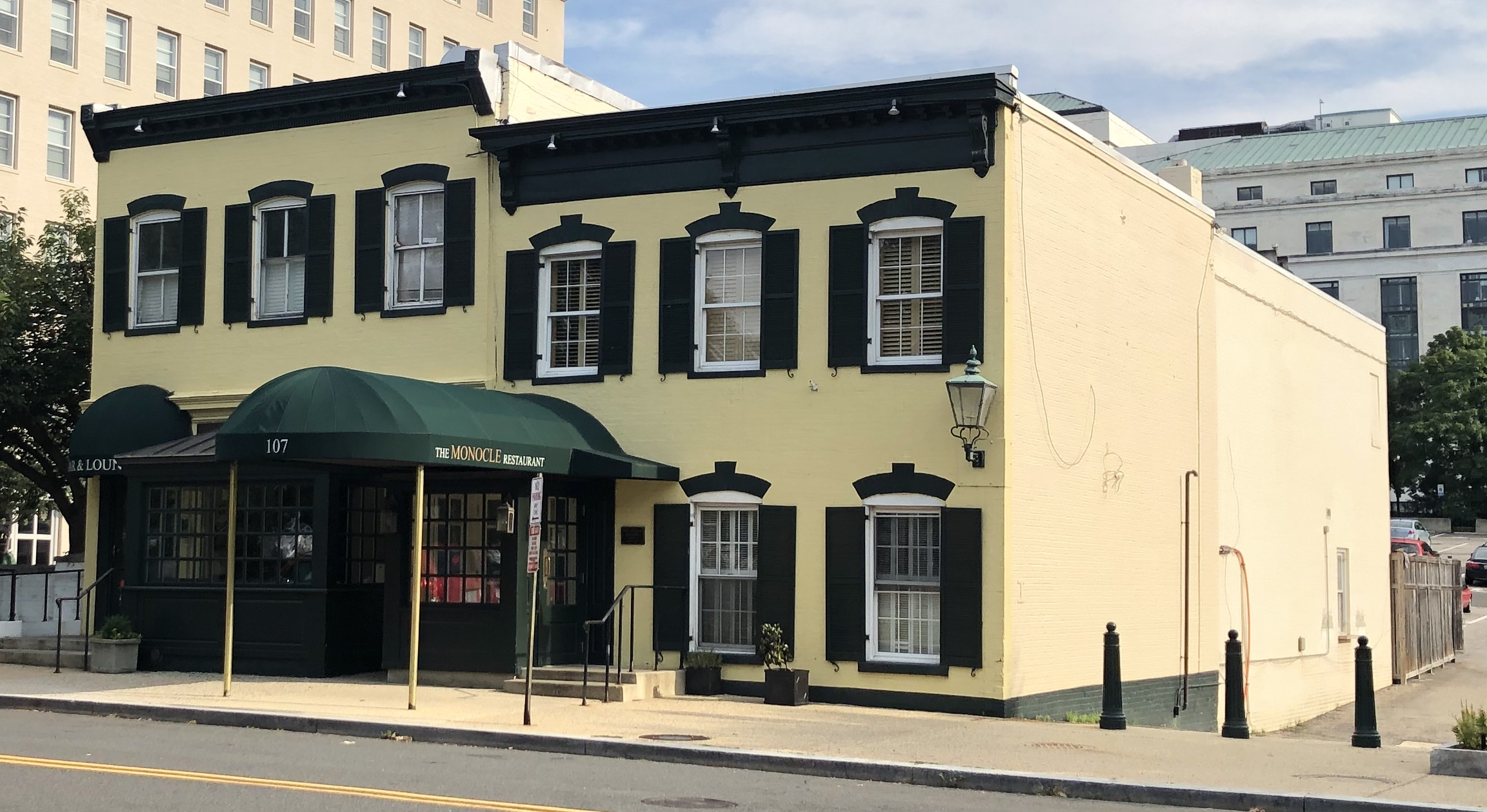 Photo of The Monocle restaurant, two adjacent 19th-century row houses painted yellow with green trim. A green awning extends from the front door.